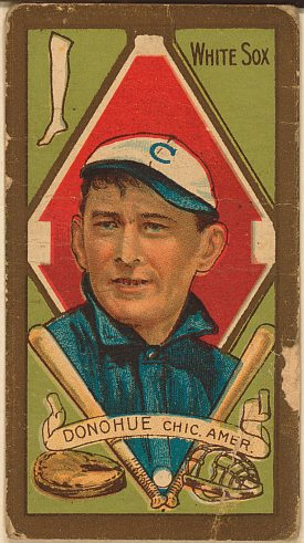 T205 baseball card for Jiggs Donahue